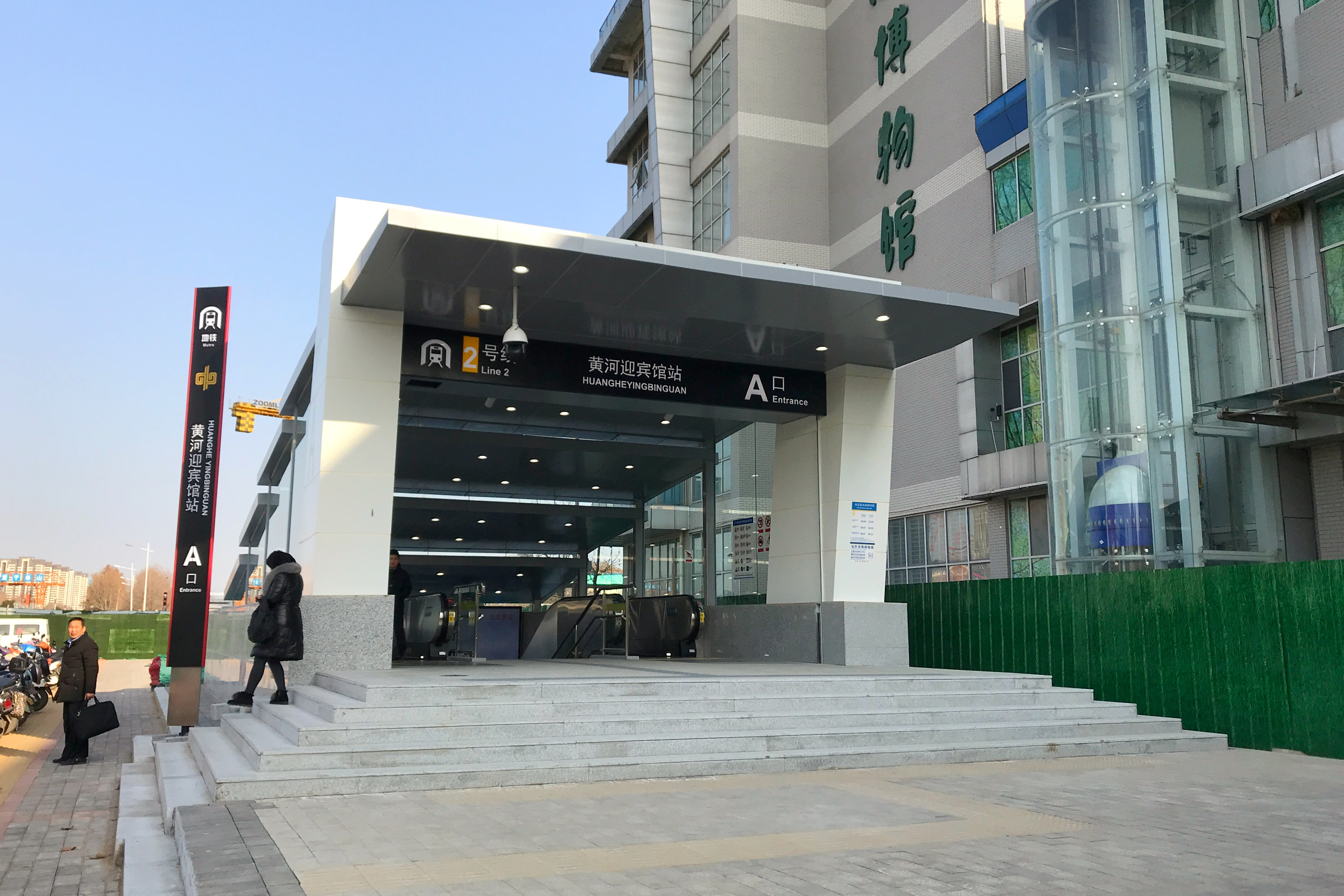 Exit A of Huangheyingbinguan Station